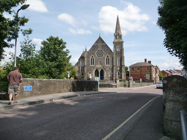 View across Town Bridge over Shreen Water at Gillingham, Dorset, looking east to the Methodist church. The plaque on the left states: "Town Bridge Gillinghamsketched byJohn Constable 1829The finished work isin the Tate Gallery"